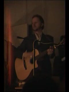 'nada' performing live at 'Westhill Hall' Brighton UK. 29th April 2007